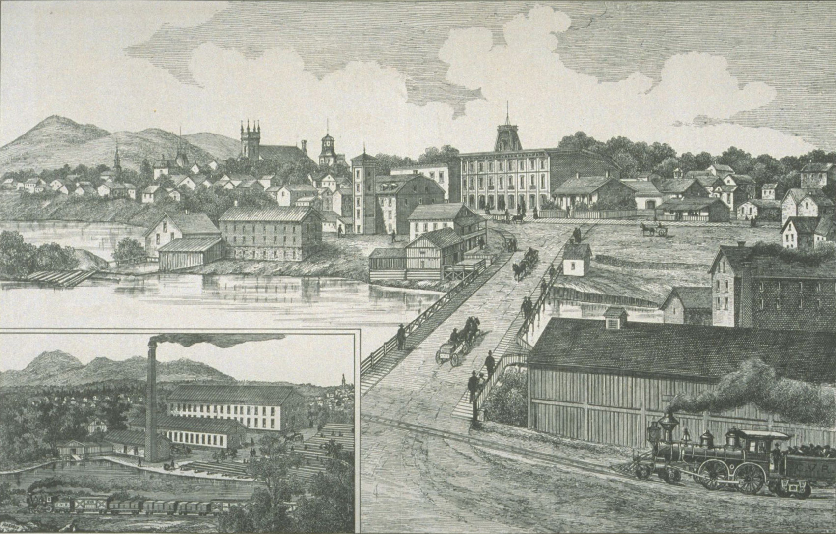 Town of Granby, Québec. From the Canadian Illustrated News (Montreal, 1883)